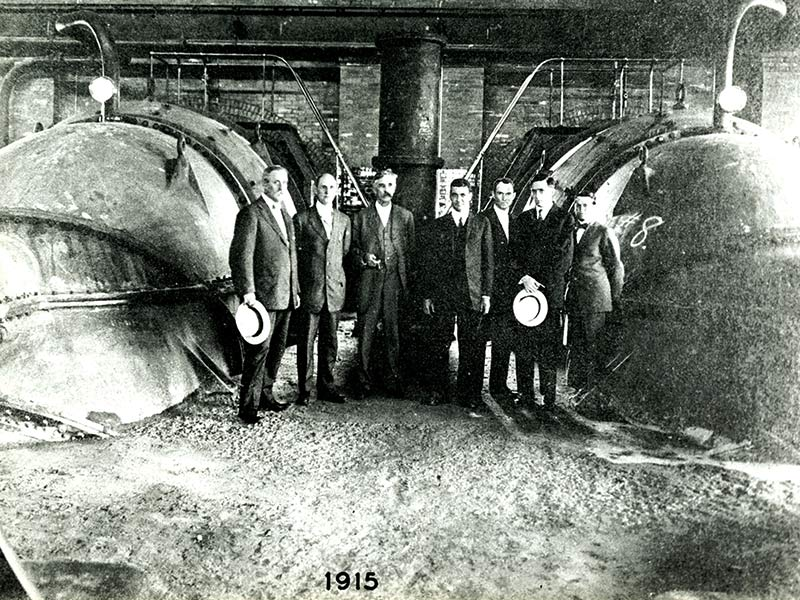 New Orleans, 1915. Dedication of Wood Screw Pump Station 15; A. Baldwin Wood Standing at center.